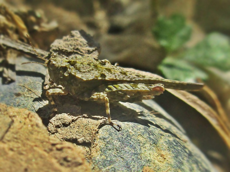 Paratettix meridionalis (Tetrigidae) - (imago), Río Guadaiza, Spain